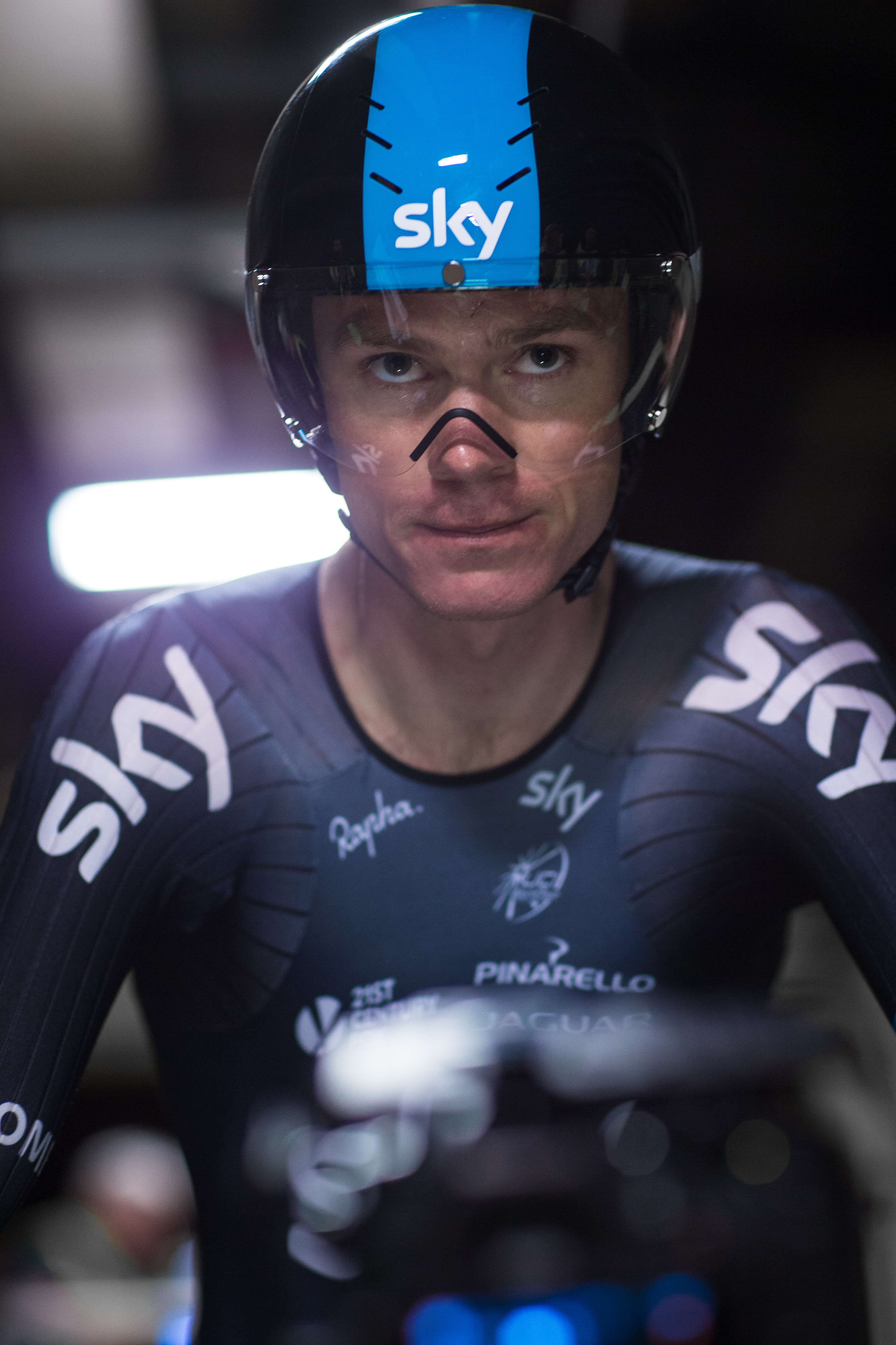 Team Sky rider and Tour de France Winner Chris Froome crosses the English Channel by bicycle, using the Eurotunnel service tunnel and support by Jaguar Cars. The service tunnel had previously been crossed by a group of cyclists[1] on the night of 2/3 December 1994[2] travelling from London to Paris in aid of Téléthon en France 1994.[3] In 1994 Henri Sannier had been accompanied by Jean-Michel Guidez[4], Patrick Chêne, Jean Mamère, Marc Toesca and others.[5]